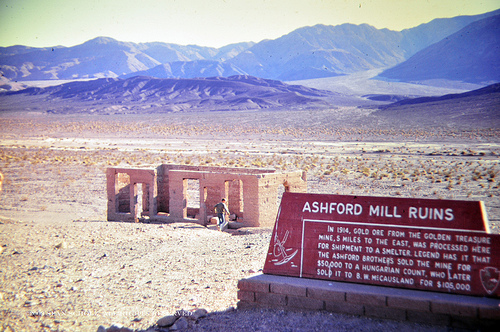 View of Ashford Mills in Death Valley, CA showing information sign of the U.S. National Park Service.